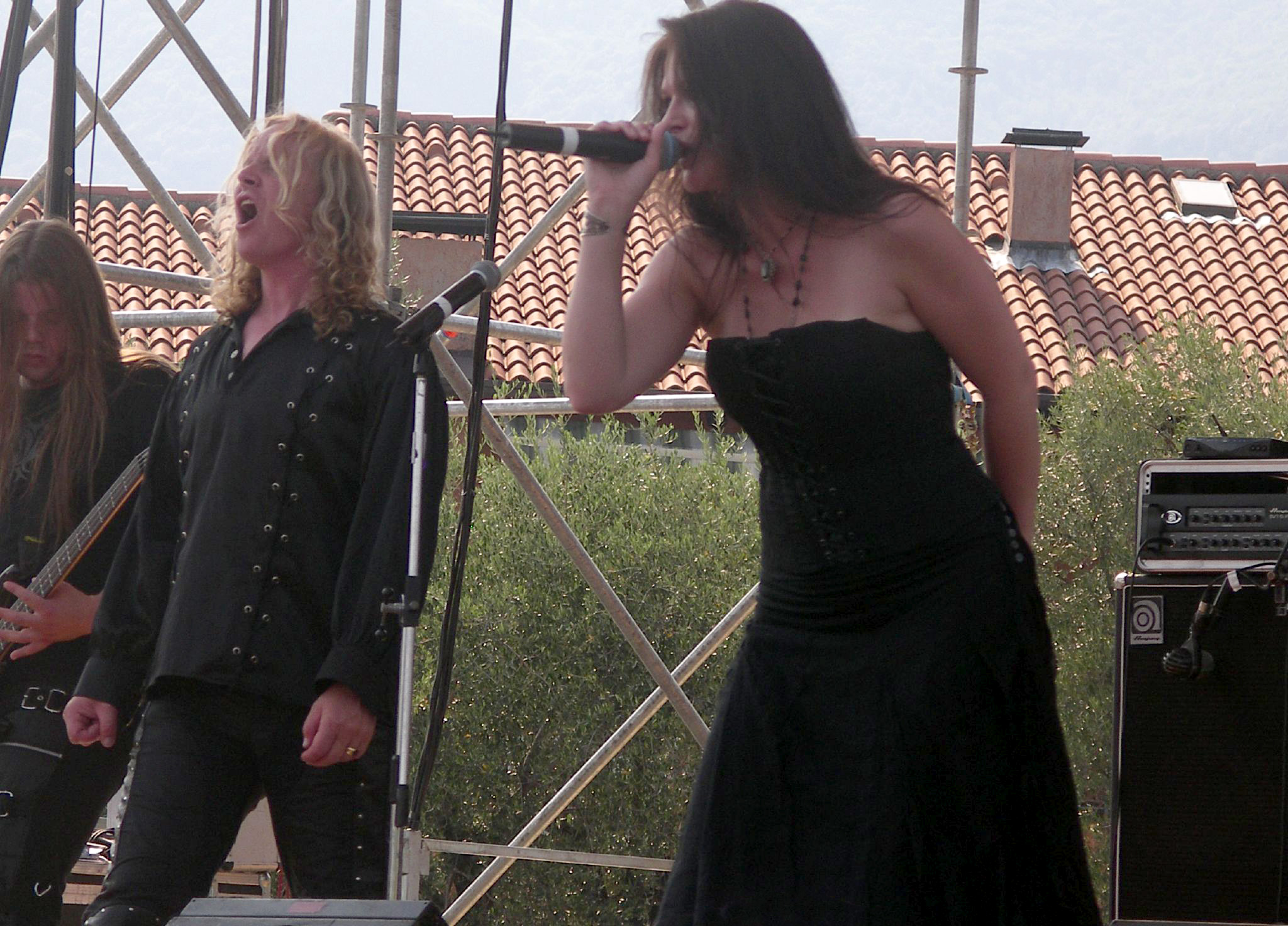 Tristania during a concert promoting the album Ashes.